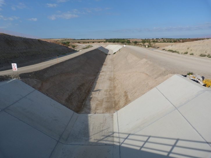 Passing through Tàrrega (unfinished)